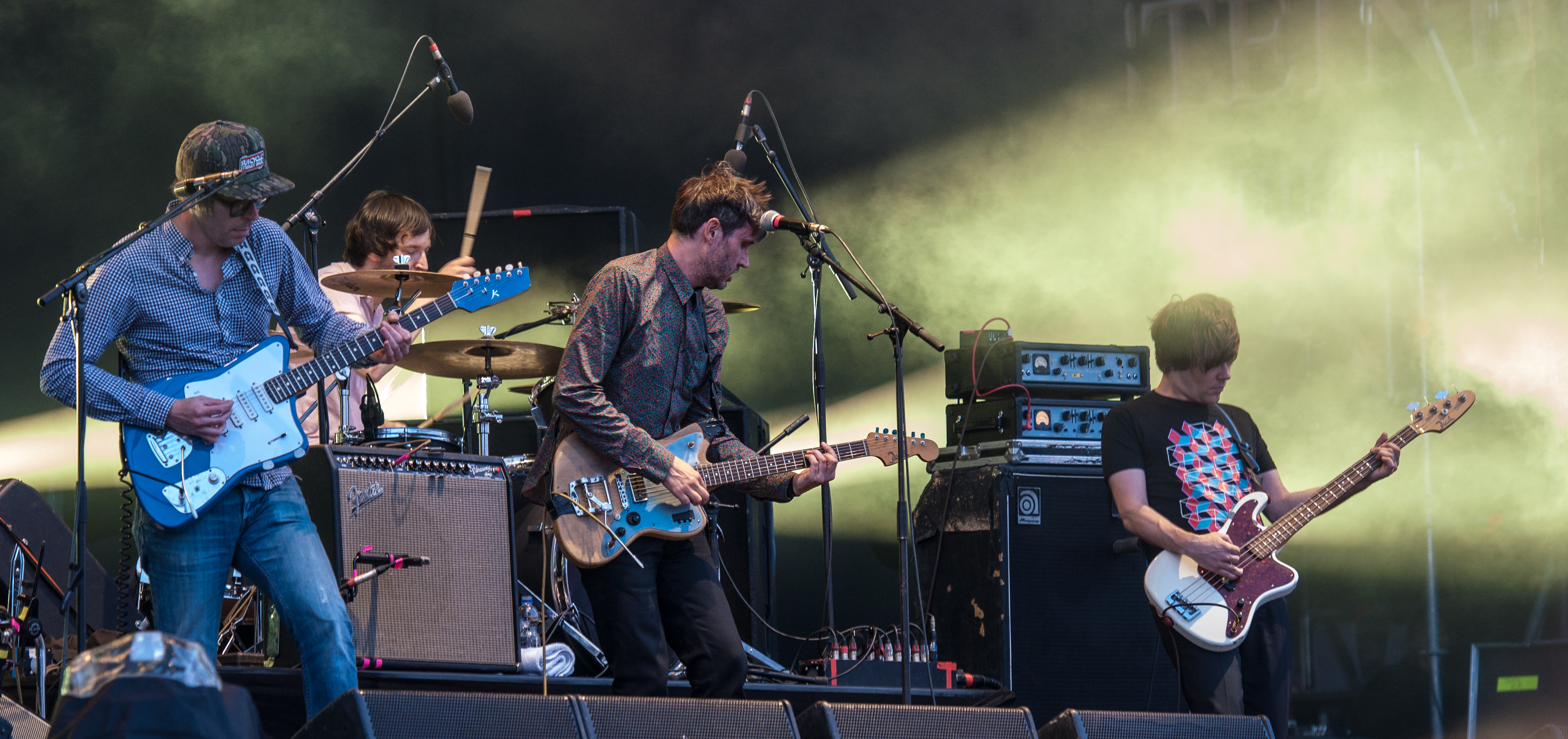 Tocotronic at Rock am Ring 2013